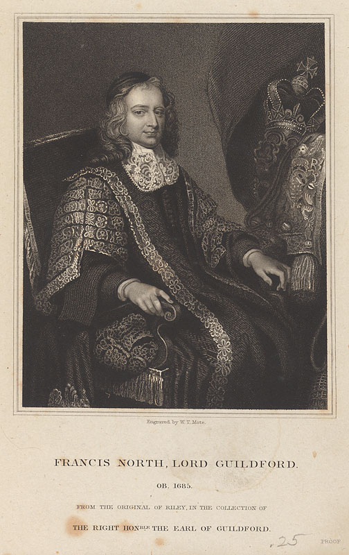 Francis North, 1st Baron Guilford (1637-1685)